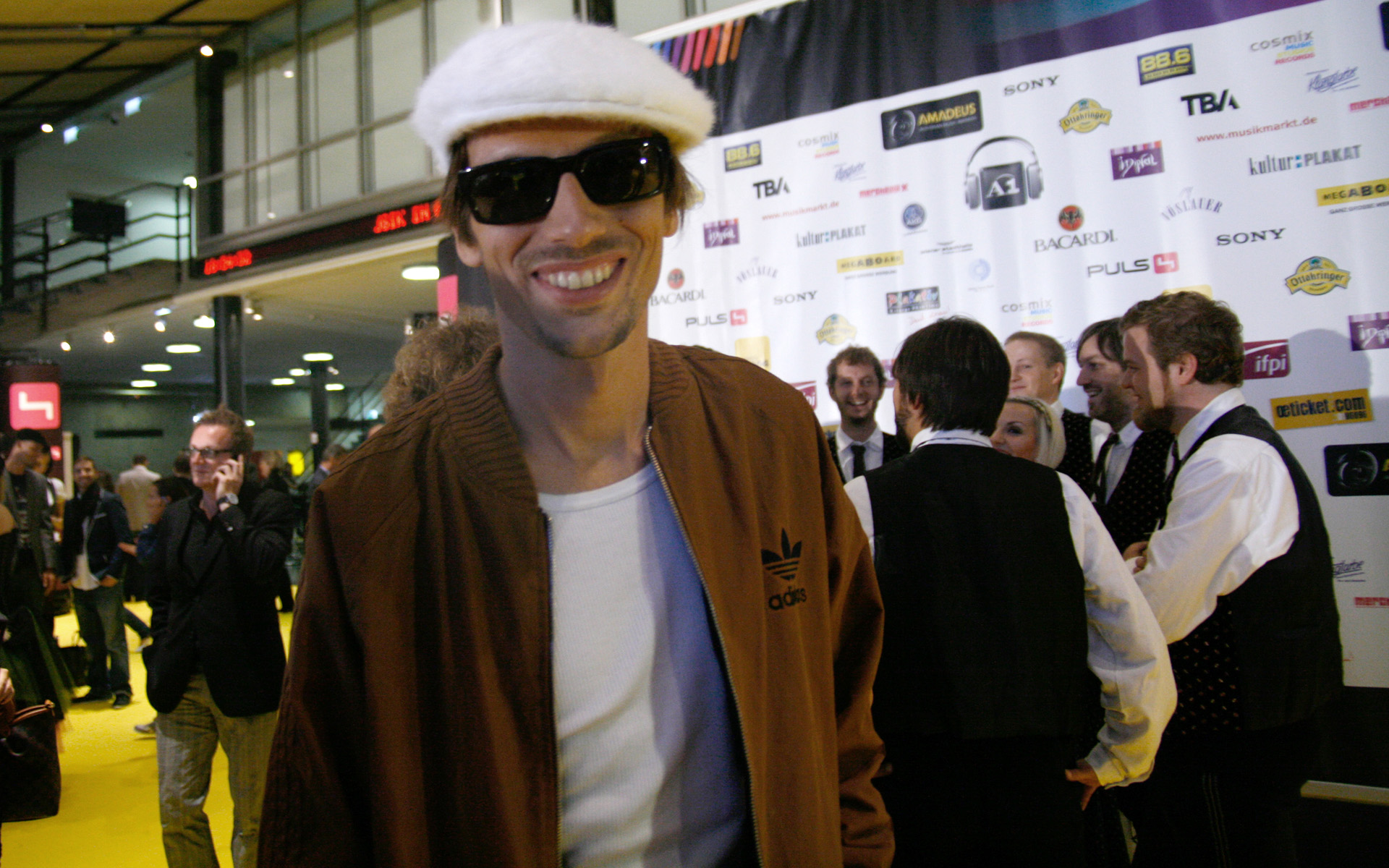 Skero at the Amadeus Austrian Music Award 2010 (Wiener Stadthalle, Vienna, Austria)